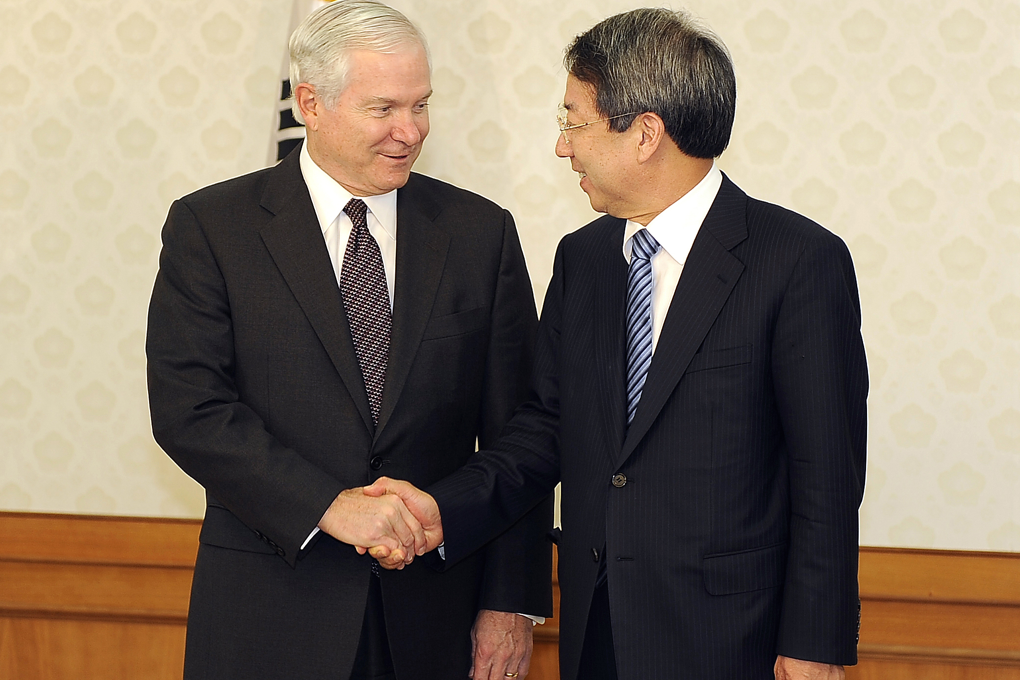 U.S. Defense Secretary Robert Gates talks with South Korean Prime Minister Chung Un-chan during their meeting at the Government Complex in Seoul, South Korea, Oct. 21, 2009. Gates is in South Korea to discuss a broad range of defense issues with local leaders.